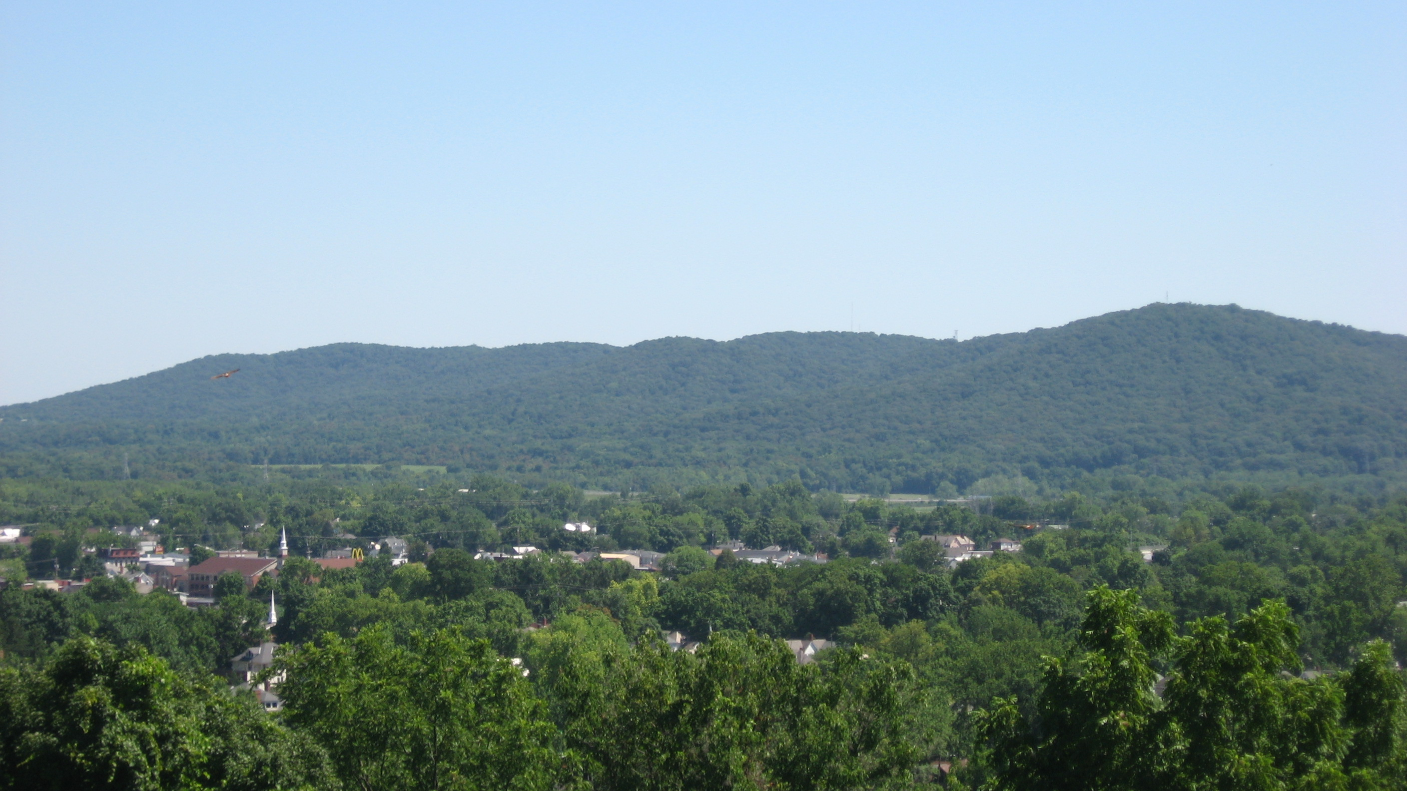 The hills of Great Seal State Park, located northeast of Chillicothe in Springfield Township, Ross County, Ohio, United States. Most of the park — more than seven square miles — composes a historic district of archaeological sites built by people of the Adena culture. Photo is taken from Grandview Cemetery on Chillicothe's southern side; both the cemetery and the archaeological district, known as the Great Seal Park Archeological District, are listed on the National Register of Historic Places.